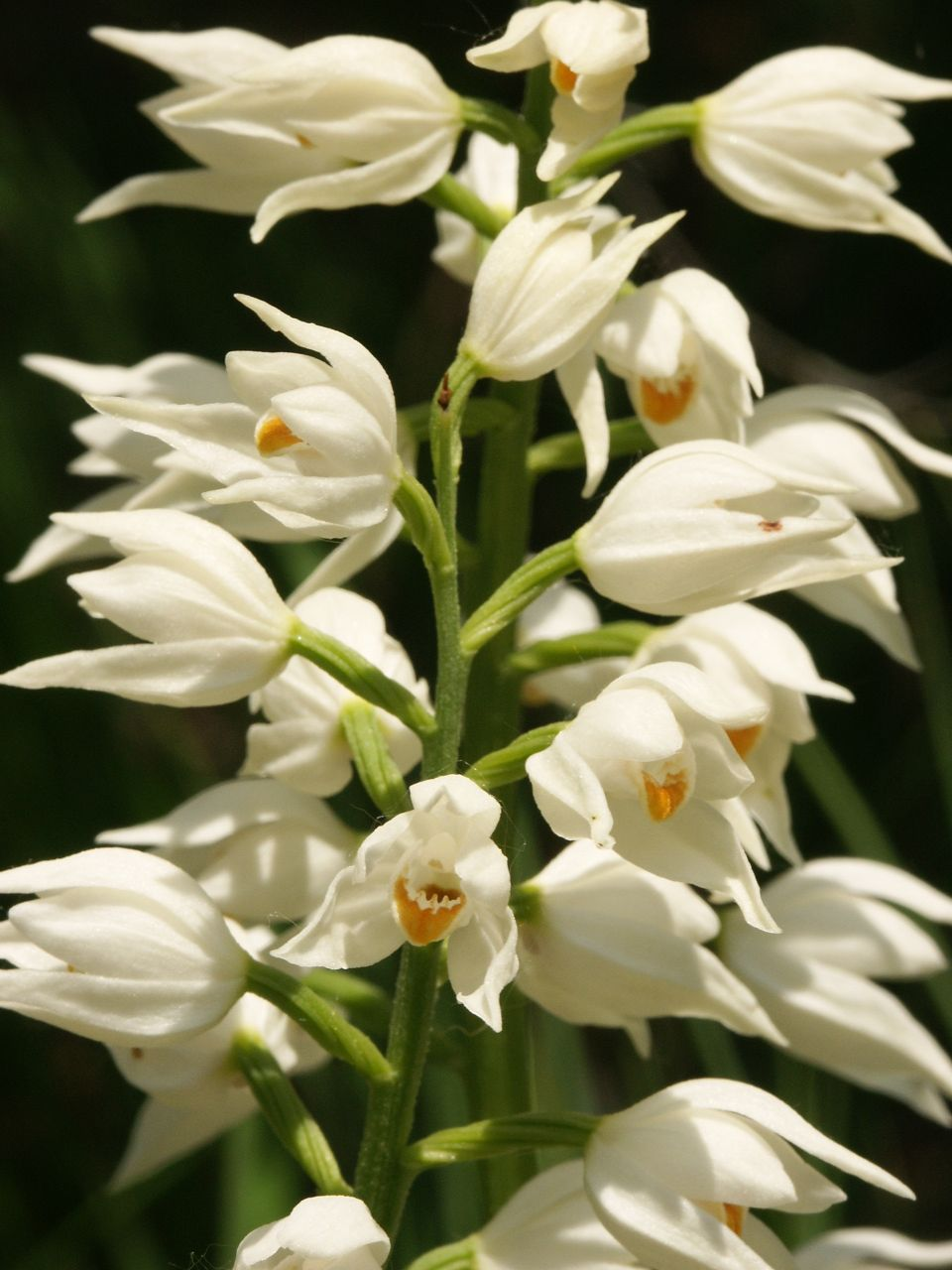 Cephalanthera longifolia, Ausserfern, Austria